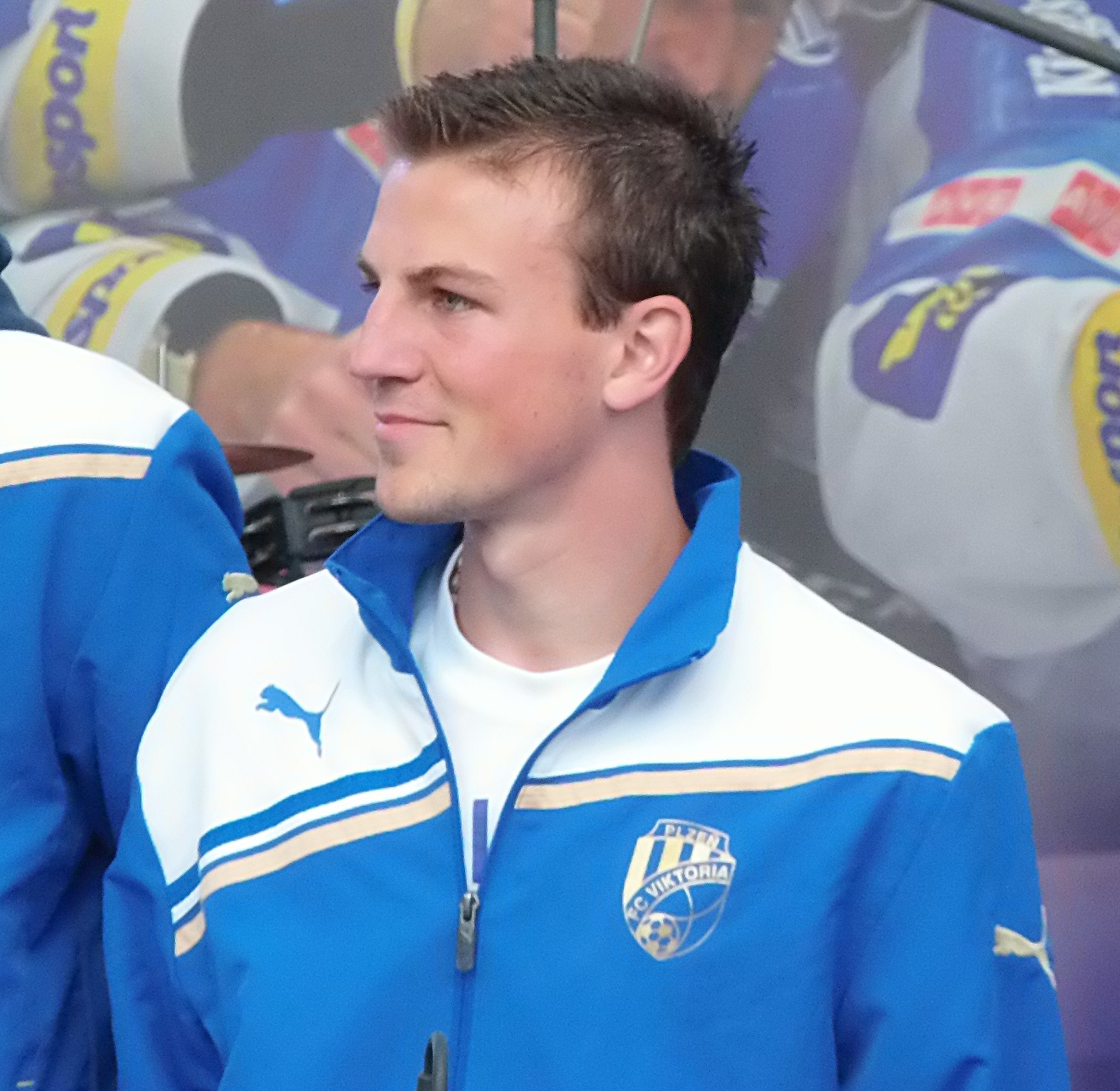 Vladimír Darida 2013-06-26 (Vladimír Darida.JPG, cropped)